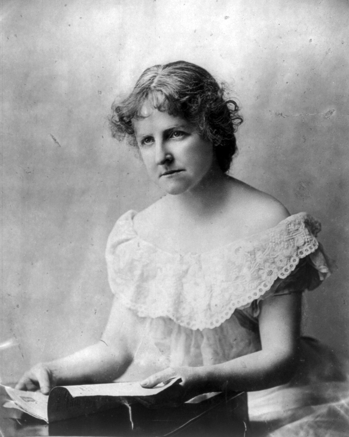 Mary Eleanor Wilkins Freeman, 1/2 length portrait, seated at small desk or table, facing left